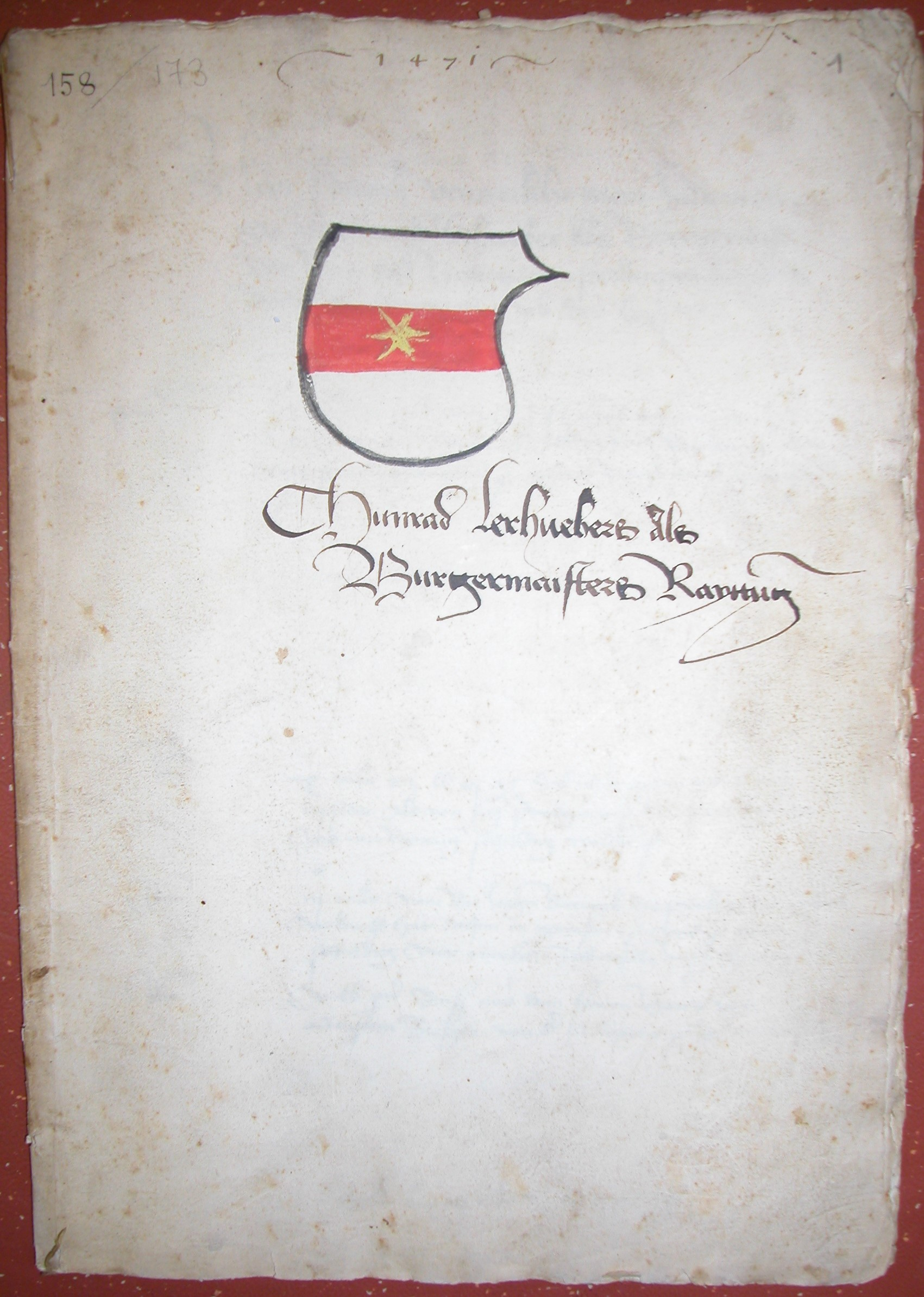 Cover of the Bozen accounting book from 1471, written by the the mayor (burgermeister) Conrad Lerhueber) with the civic coat of arms